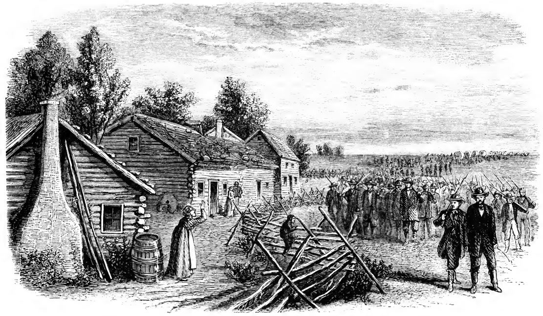 Zion's Camp marches to Missouri in 1834